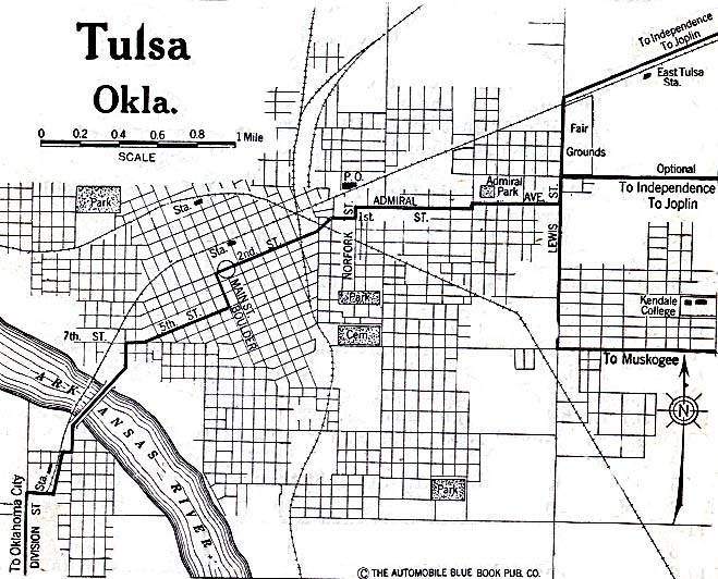 A map of from 1920 originally listed at